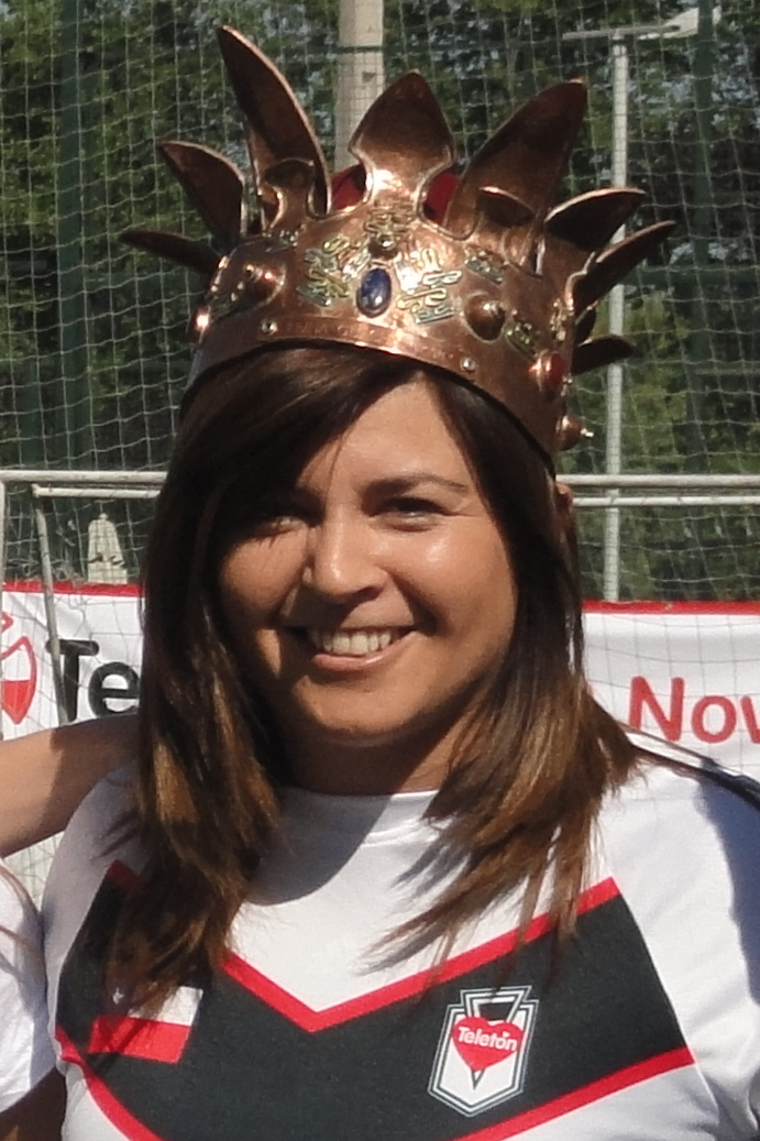 PARTIDO DE FUTBOL DE LA TELETON 533